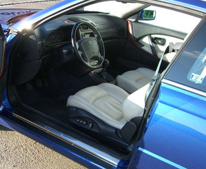 Lancia Kappa Coupé with Poltrona Frau interior